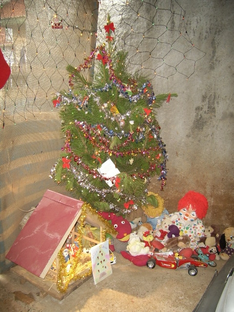 Christmas tree in Pichilemu, Chile.